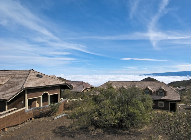 The Onizuka Center for International Astronomy, formerly known as Hale Pohaku, provides facilities for astronomers and staff of the Mauna Kea observatories to eat and sleep at the 9000-ft. elevation while working at the observatories at night. The original "stone house" was built in the 1930s for hunters. These dormitories were built in 1983, and the complex renamed in 1986 for Hawaii-born astronaut Ellison Onizuka, who died in the Space Shuttle Challenger disaster.